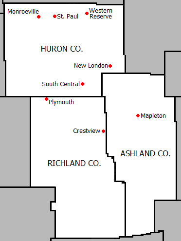 Map is from the US Census. I modified it to show school locations.